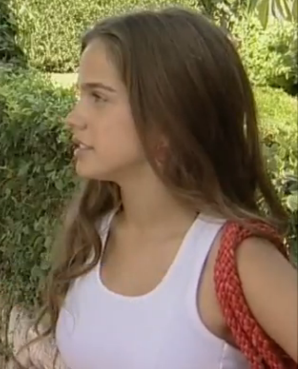 Jonathan Kis-Lev and Agam Rodberg on Israeli telenovela "Love is Around the Corner" חתוך